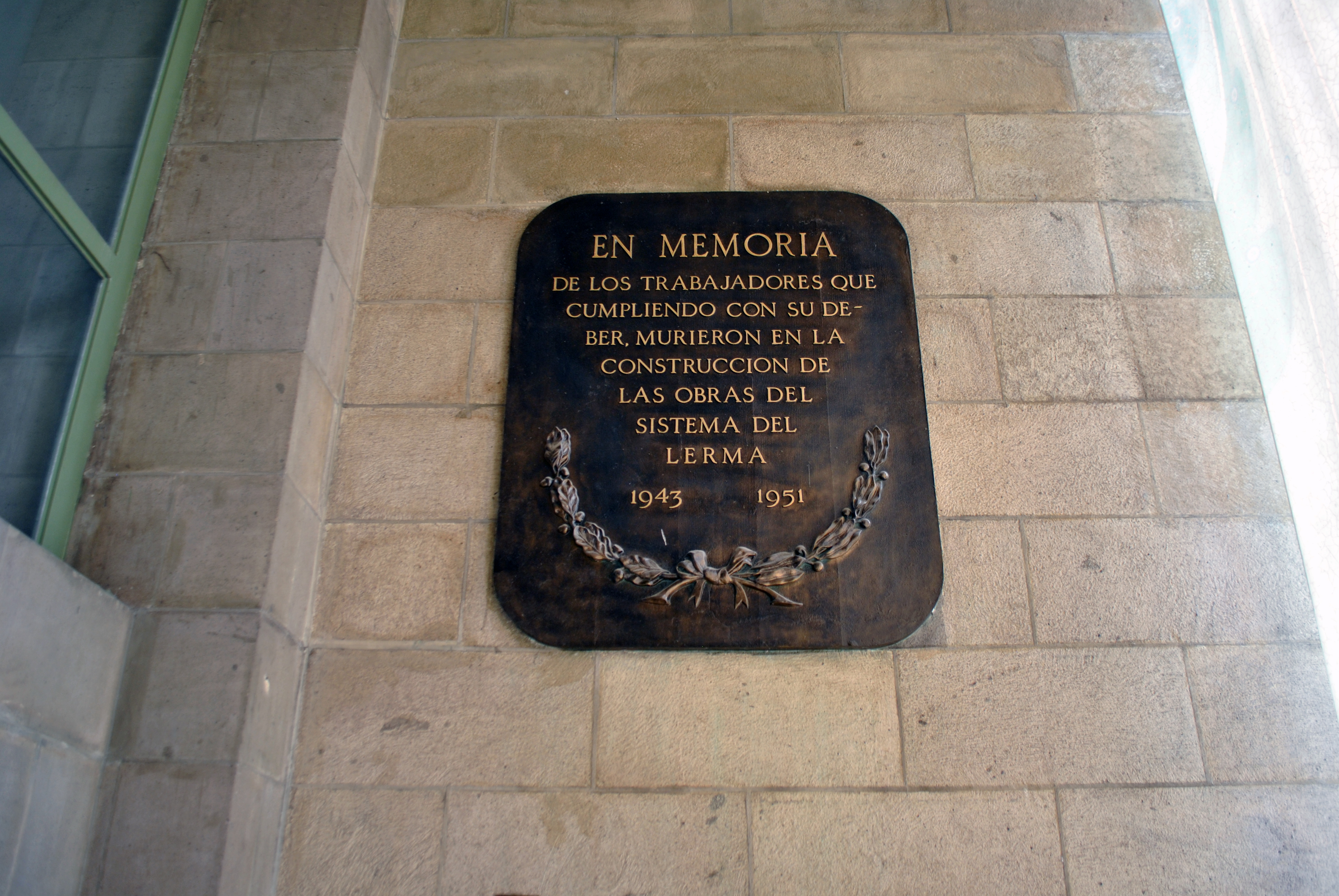 Commemorative plaque Carcamo of Dolores. Bosque de Chapultepec, Second Section, Mexico City.